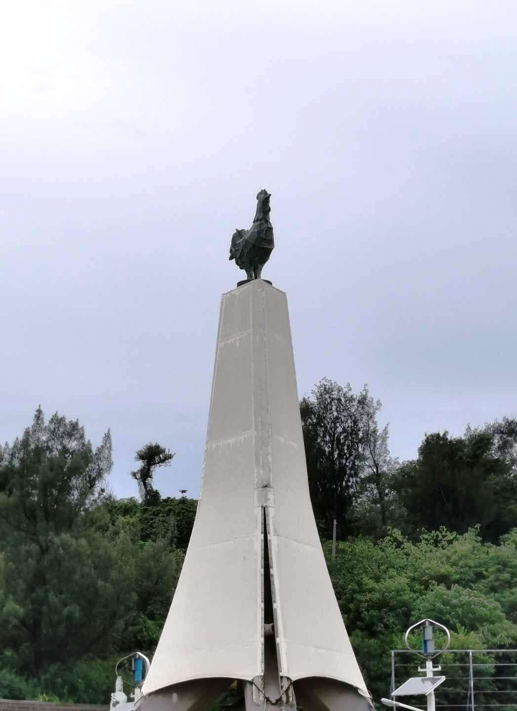 FengJi, Lieyu Township, Kinmen, Taiwan.